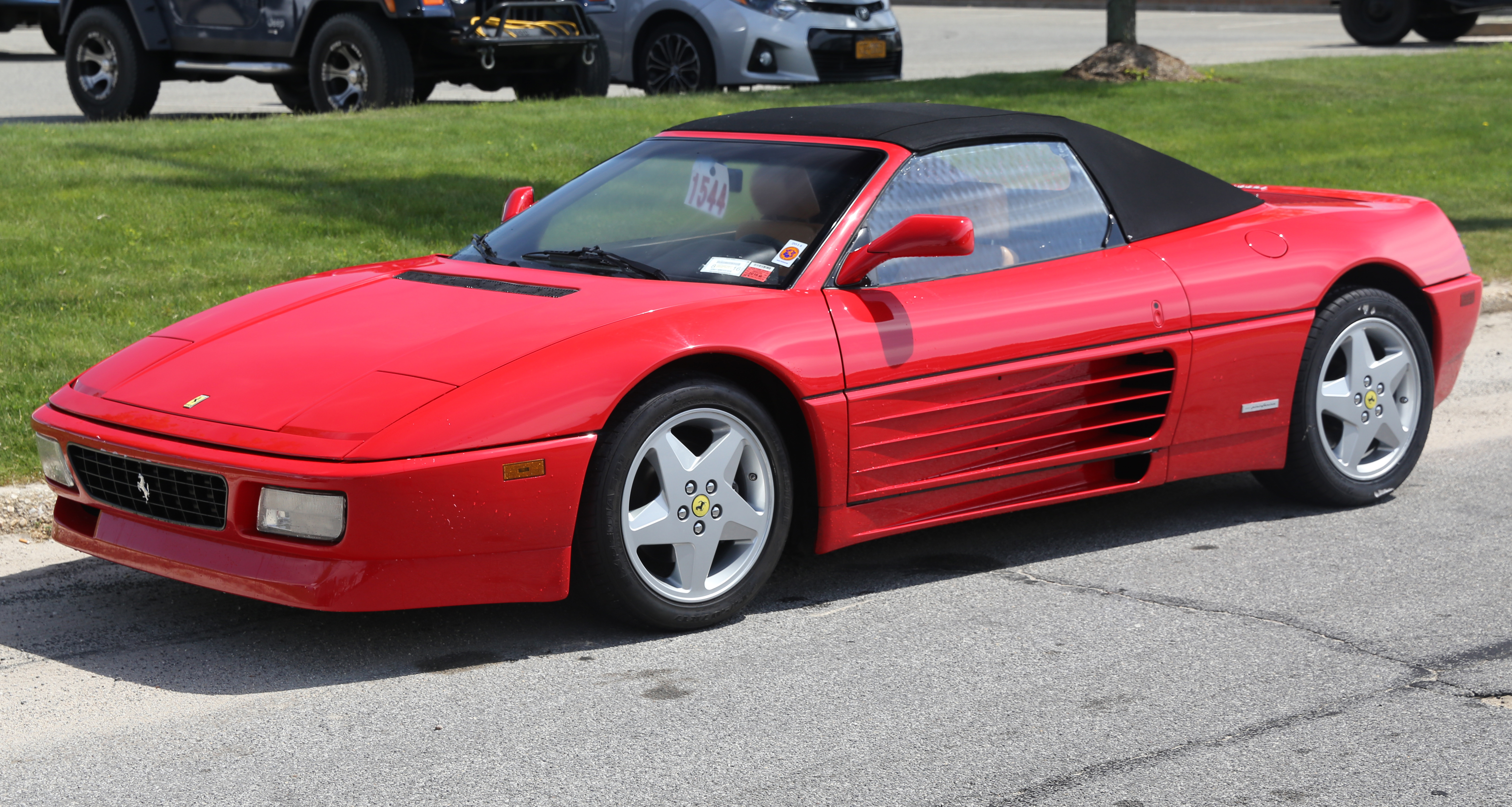 A 1993 Ferrari 348 Spider. Yum!